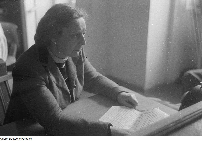 Original image description from the Deutsche FotothekPortrait Hedda Zinners